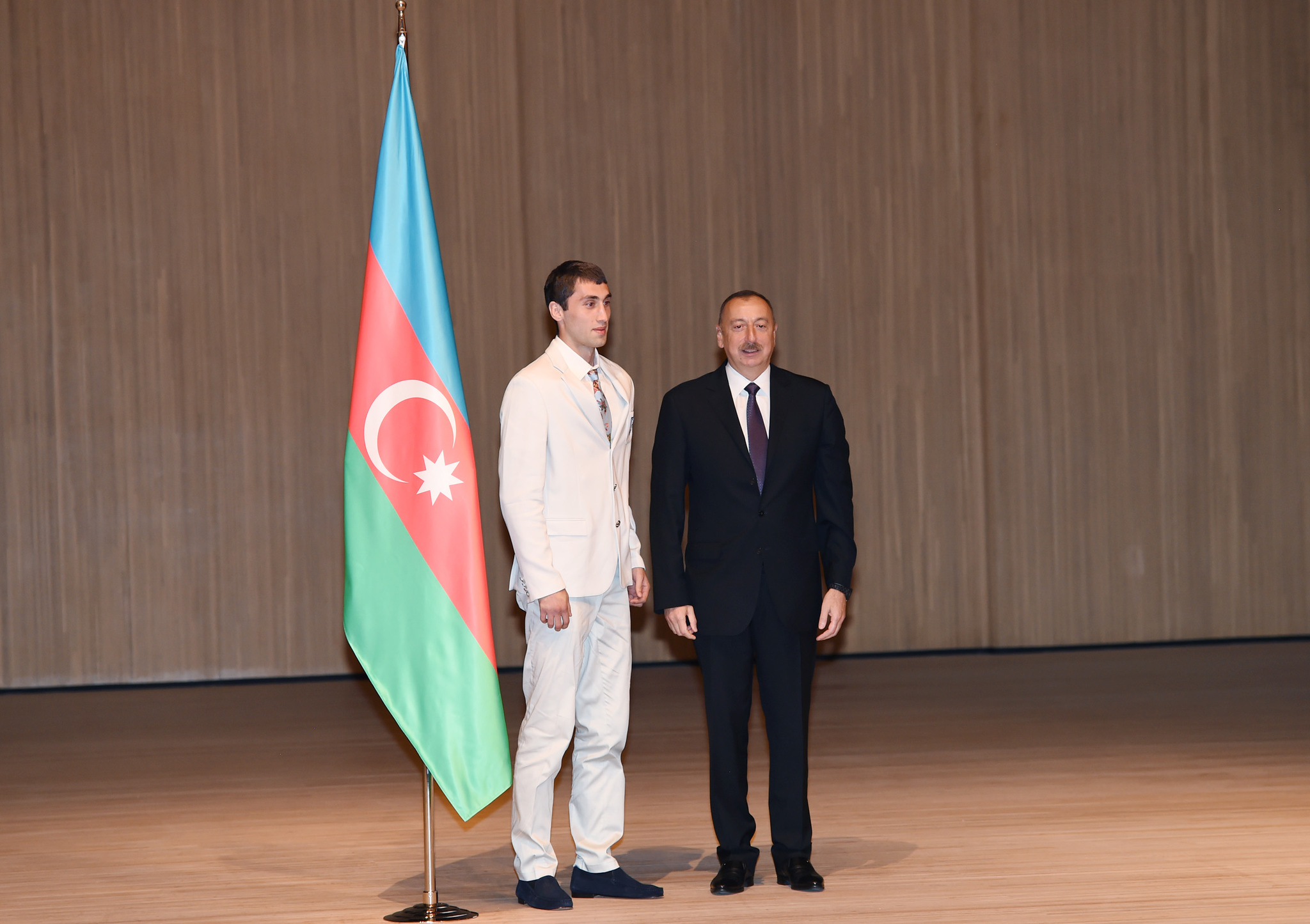 Seeing-off ceremony for Azerbaijani sportsmen to represent the country at the Rio 2016 Summer Olympic Games